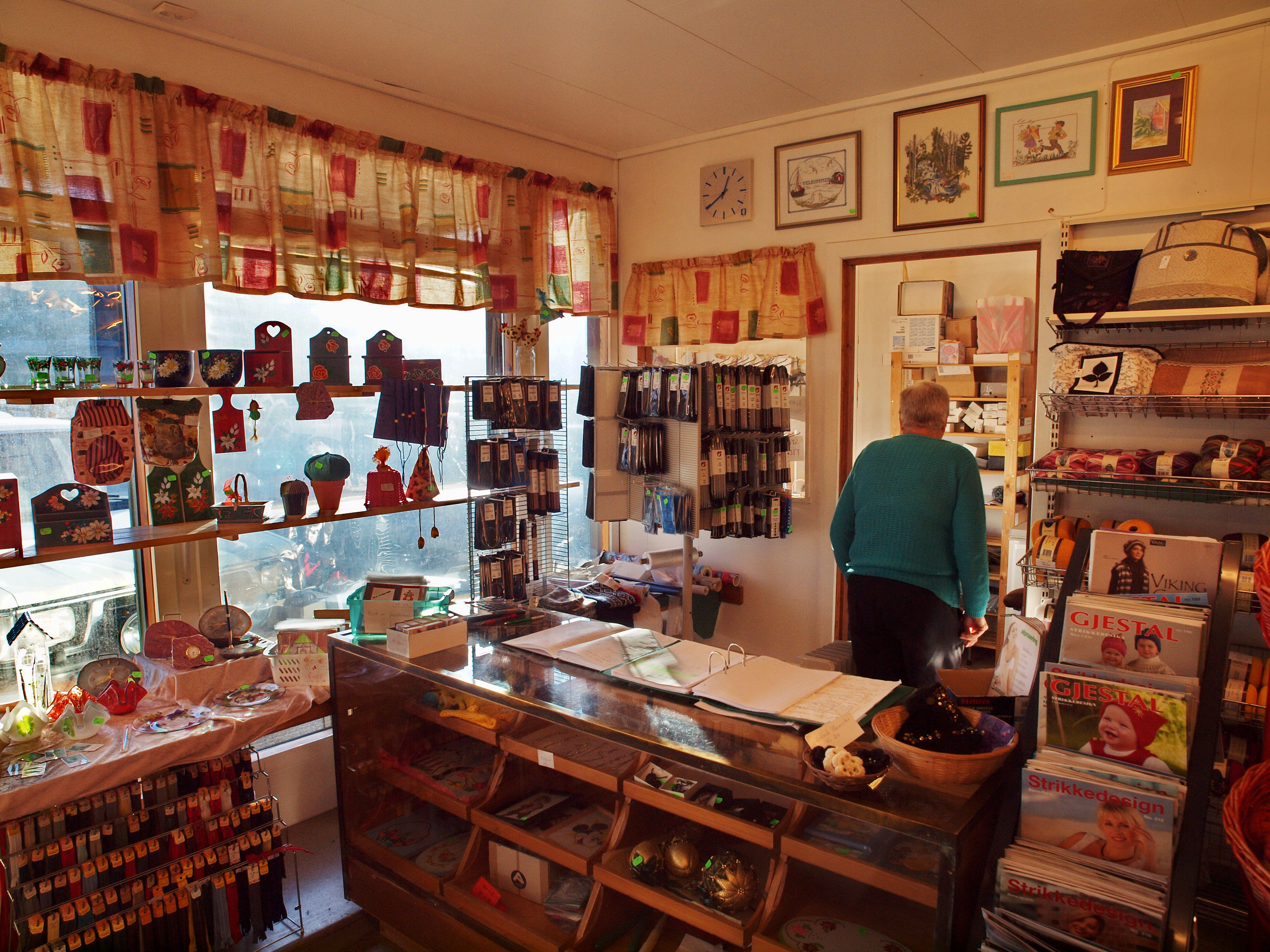 Byrkjenes, Gulen municipality, Sogn og Fjordane county, Norway.